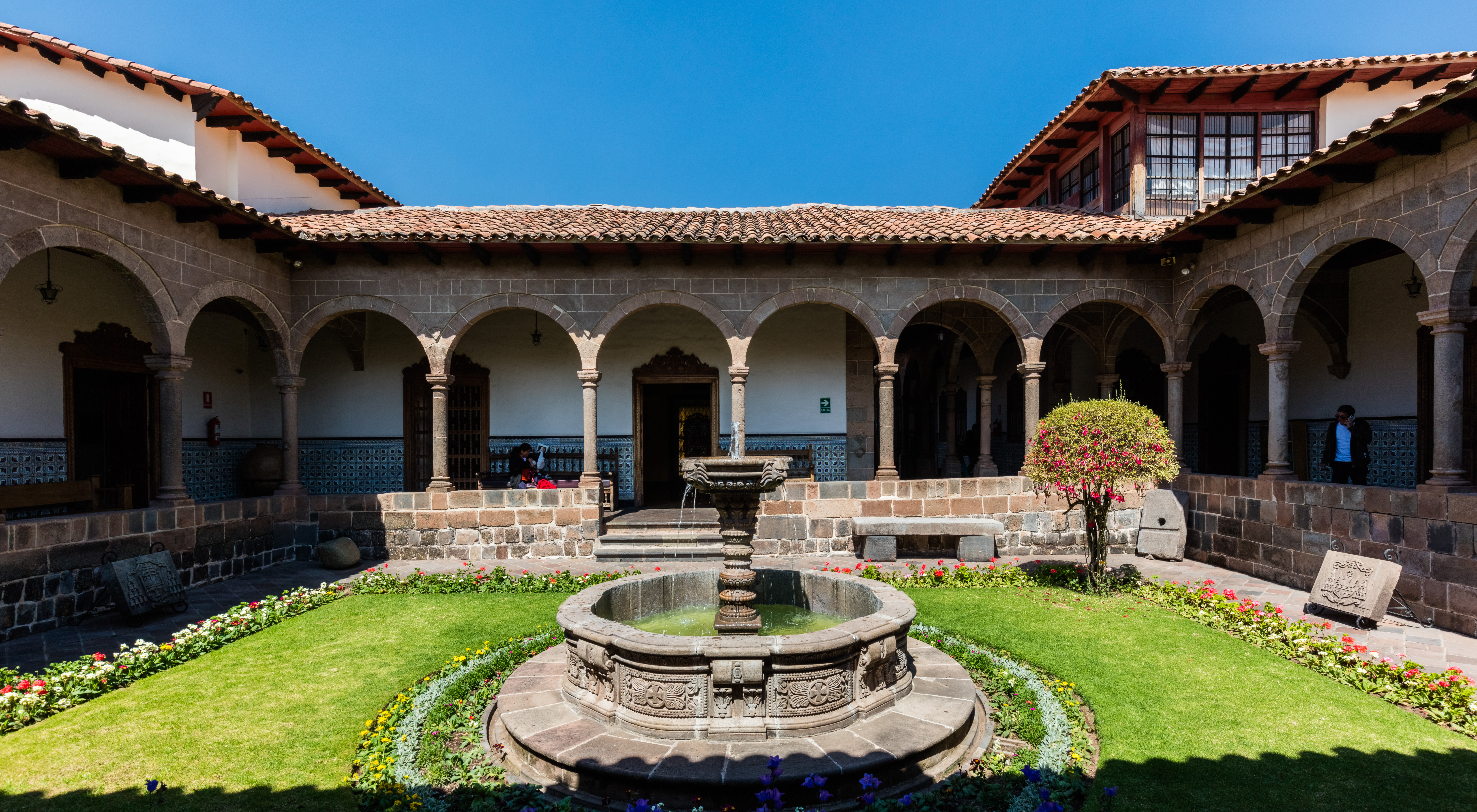 Archbishopric religious art museum, Plaza de Armas, Cusco, Peru